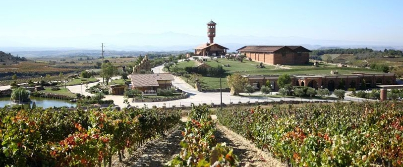 Mainview of the Eguren Ugarte winery in Spain